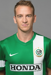 Ruben Rayos רובן ראיוס